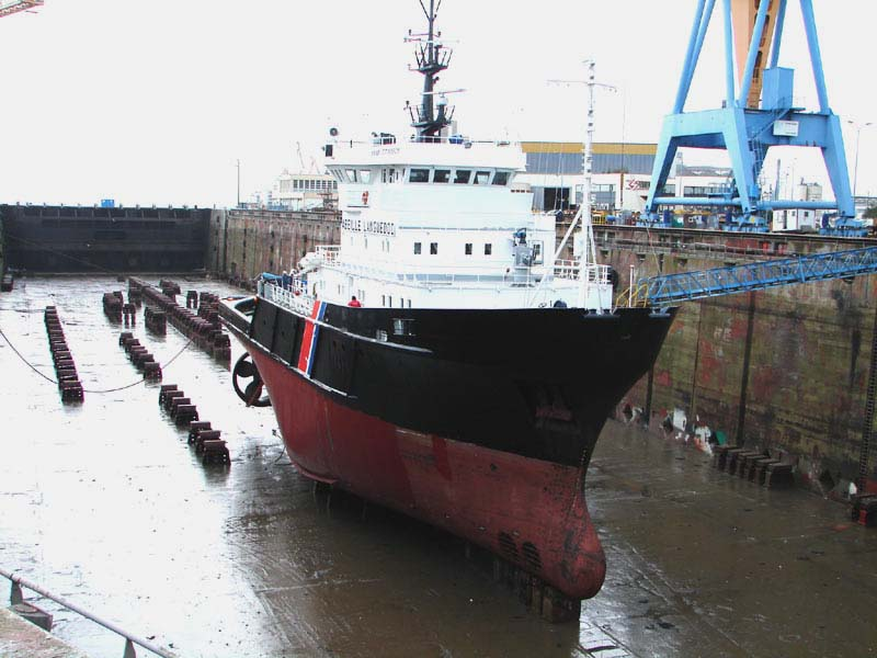 Le remorqueur de haute mer Abeille Languedoc en cale sèche à Brest.